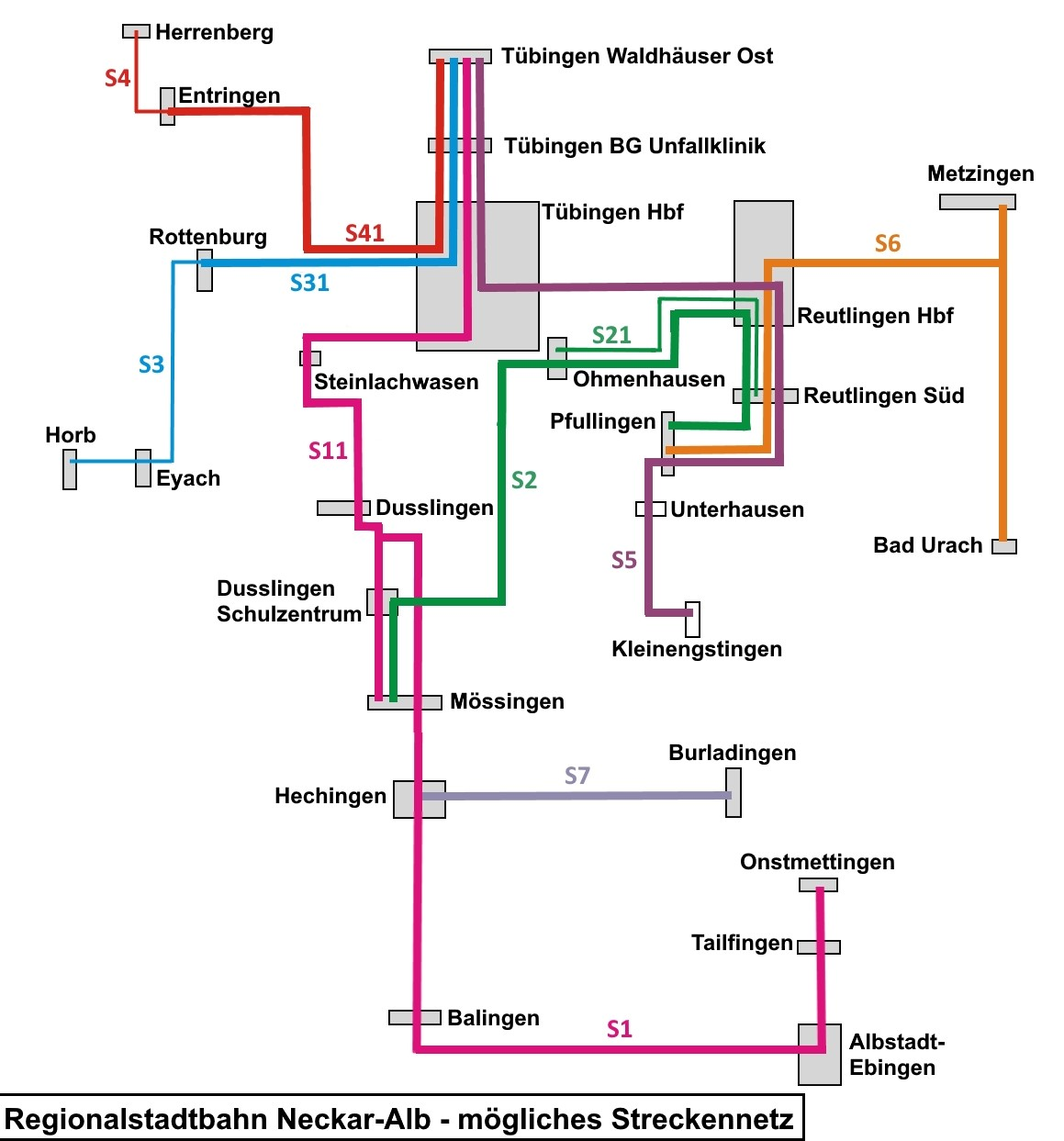 Map of public transport lines (Regionalstadtbahn Neckar Alb) around the cities Tübingen (middle) and Reutlingen, including some former railway lines of the region.